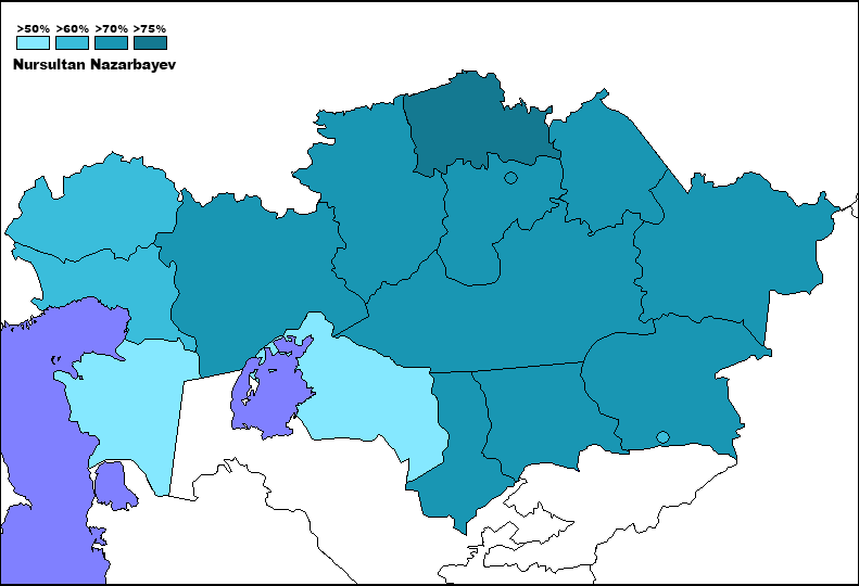 Map of results of the 2005 Kazakh presidential election by regions. More than 75% More than 70% More than 60% More than 50%